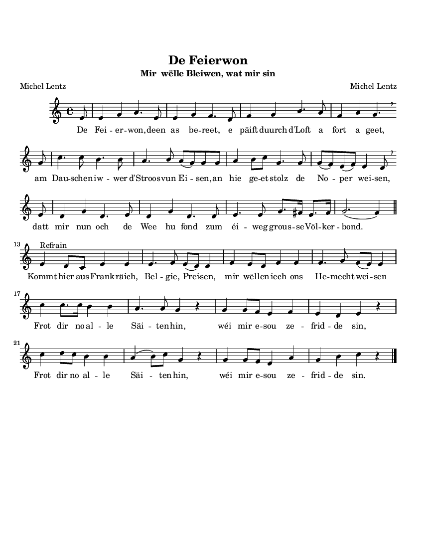 Lyrics and music of the patriotic song De Feierwon by Luxembourgian author Michel Lentz (1859)